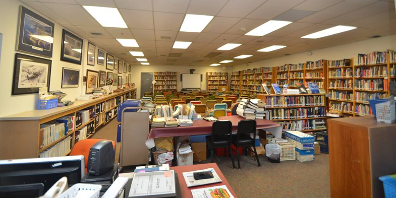 The mission of the Library & Archives is to maintain and preserve institutional records and to collect, preserve, and make available images, literature, manuscripts, memoirs, diaries, books, and oral histories relating to military history. The library collection is open to the public with admission to the museum. Current up to date museum membership is required to check books out of the library.